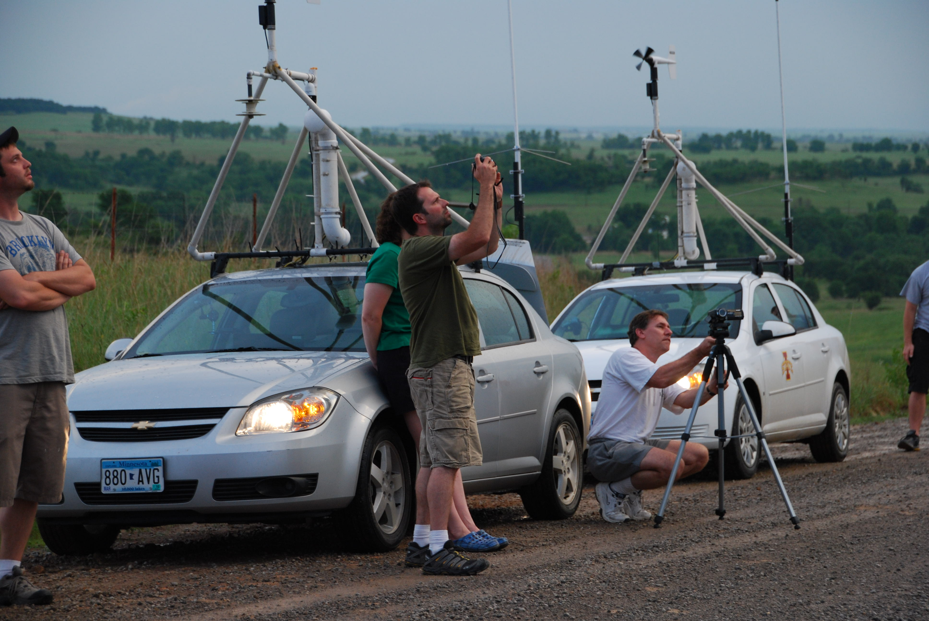 TWISTEX team members on a storm with the mesonet vehicles.